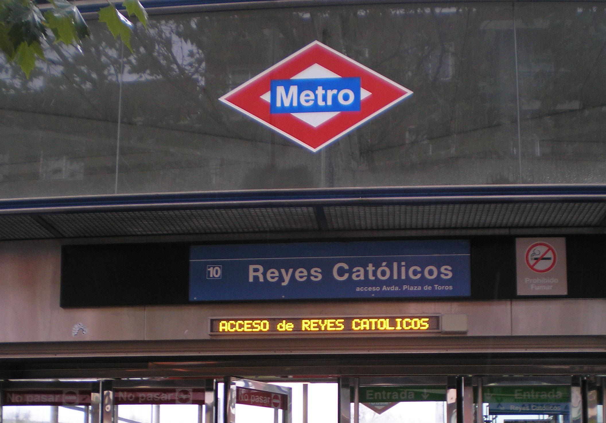 Reeyes Católicos underground station in San Sebastián de los Reyes (Madrid Metro).